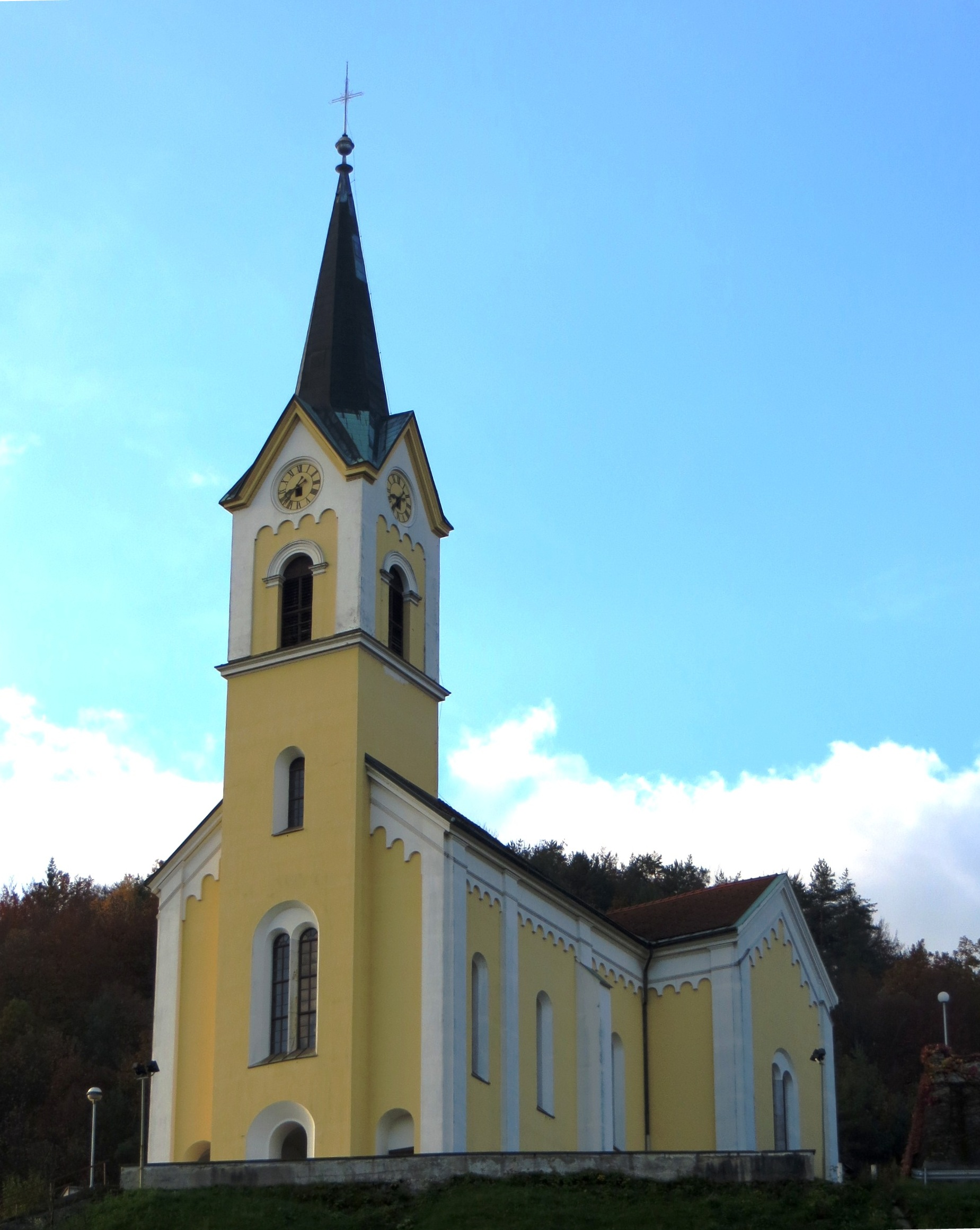 Saint Stephen's Church in Sora, Municipality of Medvode, Slovenia